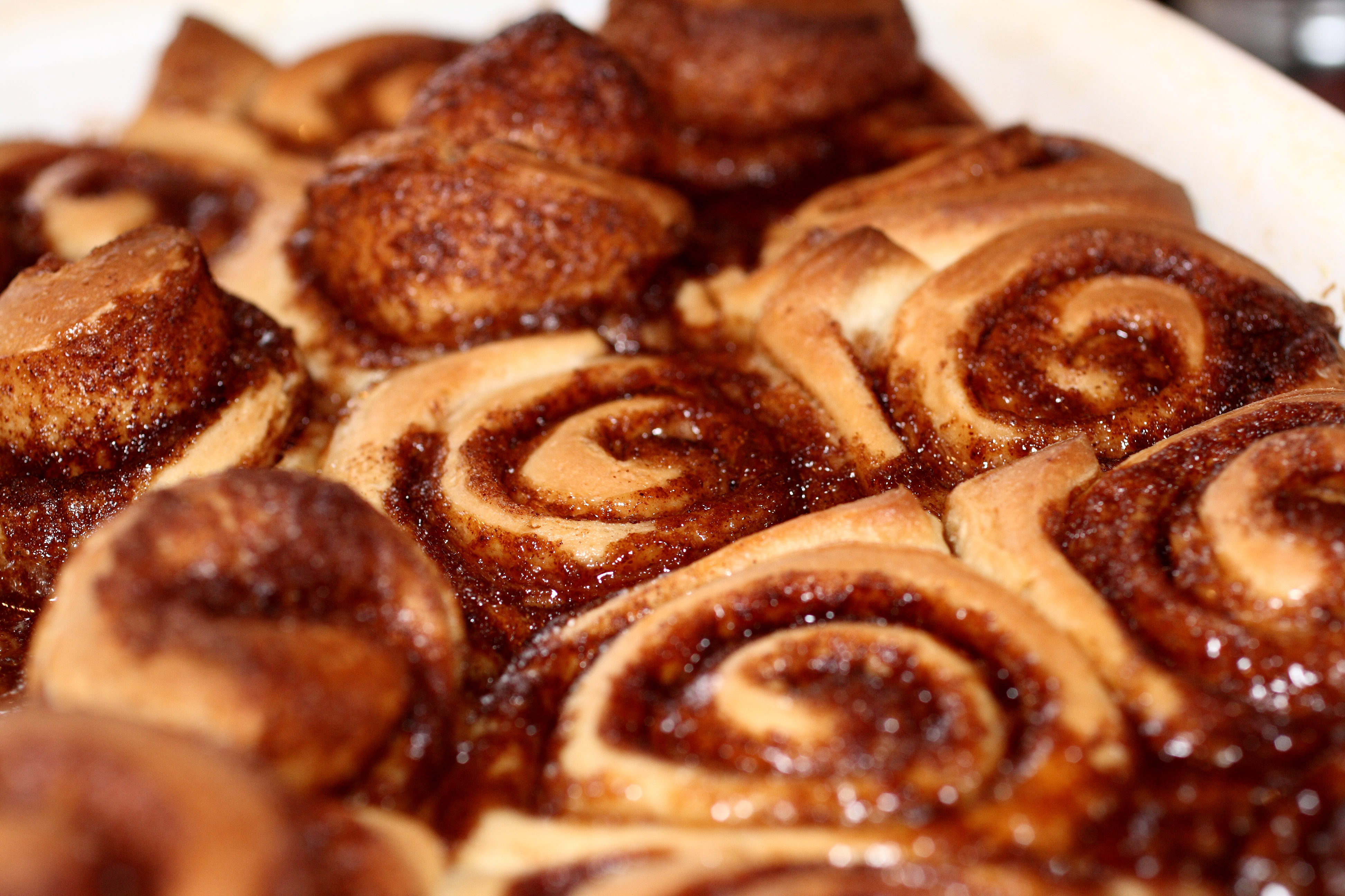 Cinnamon roll buns fresh from the oven.